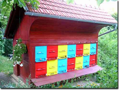 AŽ hives